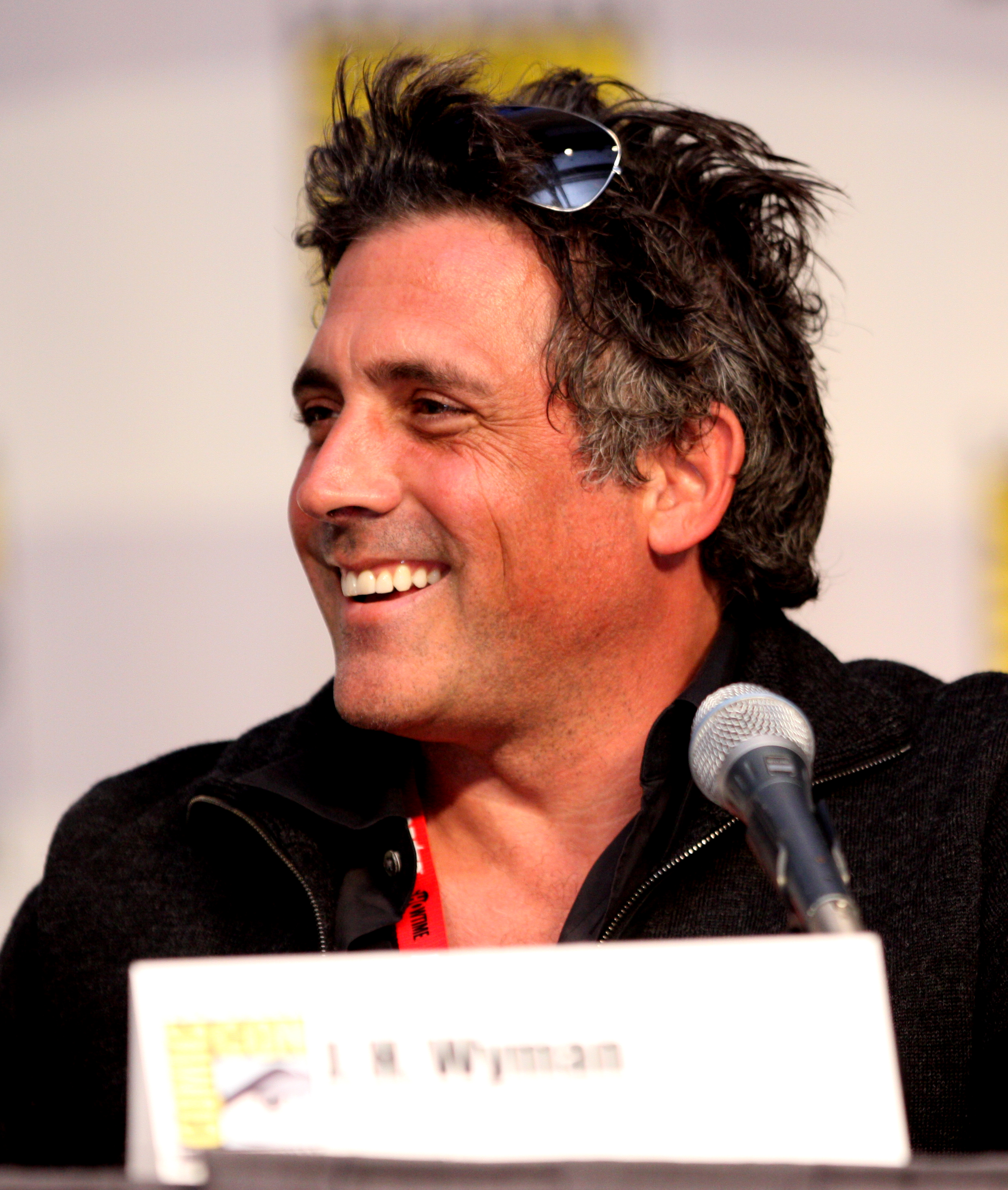 J. H. Wyman at the 2010 Comic Con in San Diego